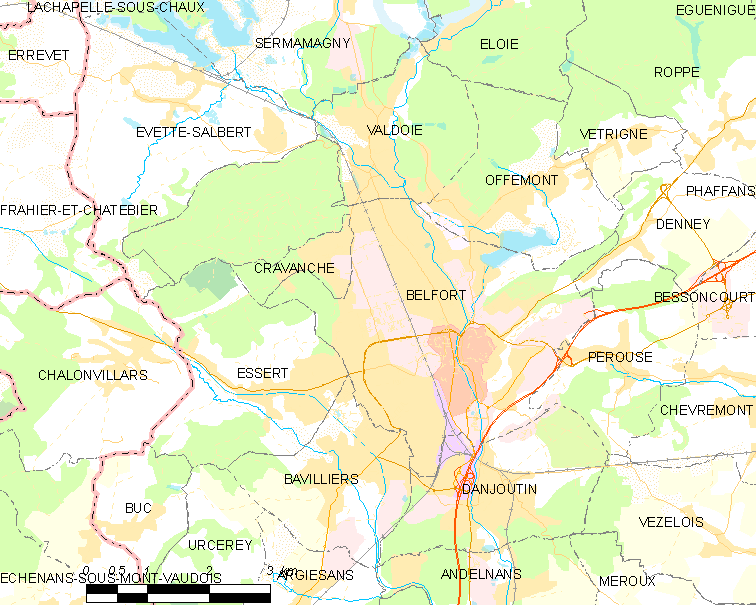 Map of French municipality Belfort